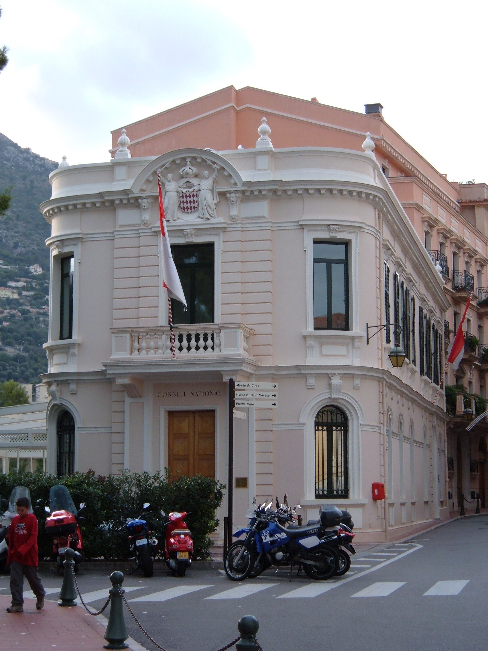 The Monaco National Council building in Monaco-Ville.